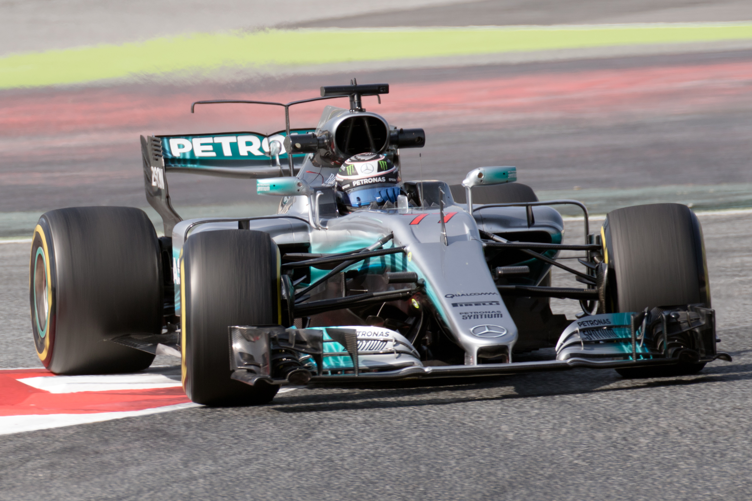 Formula One 2017 Catalonia test (27 February-2 March): Valtteri Bottas (Mercedes)